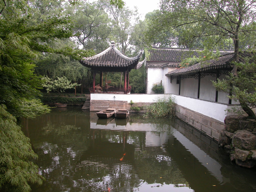 Classical Gardens of Suzhou (China)